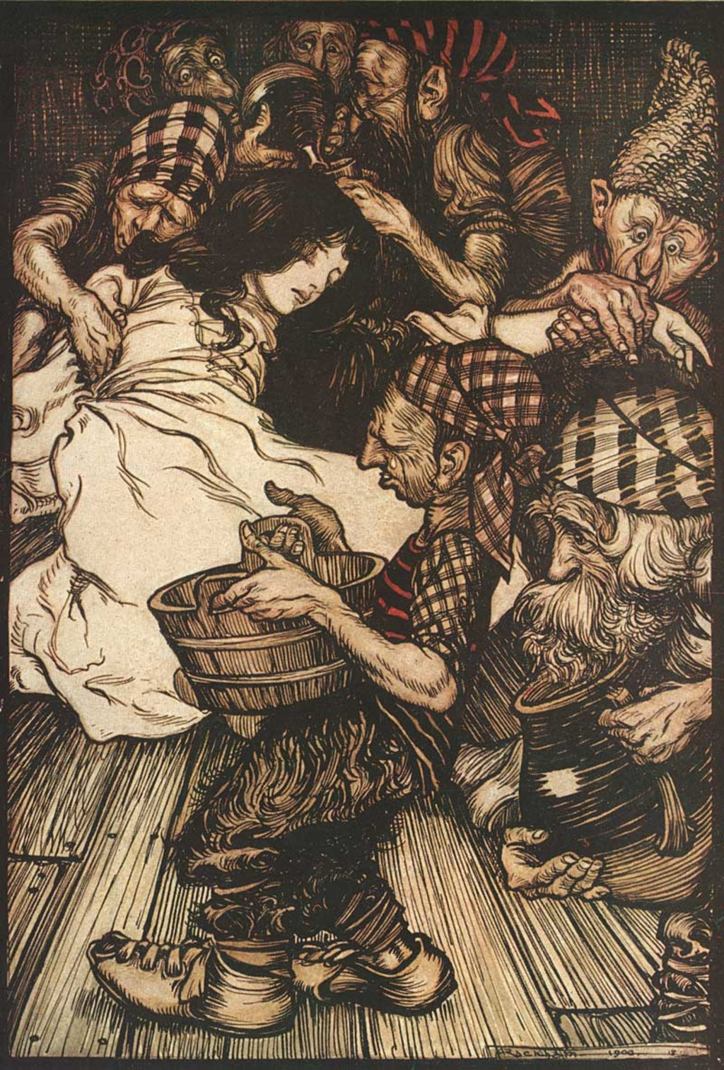 "The Dwarfs, when they came in the evening, found Snowdrop lying on the ground" (source, alternate source). From Grimm's Fairy Tales - Illustrated by Arthur Rackham (1909) (source). Note that several illustrations, including this one, are missing from the eBook edition. It was later re-published as Snowdrop & Other Tales By the Brothers Grimm (1920).